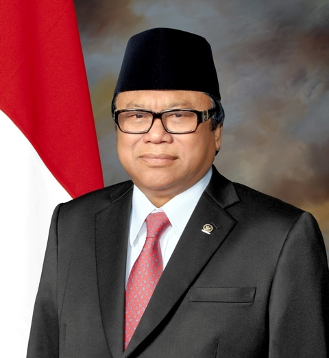 Oesman Sapta Odang, deputy speaker of the People's Consultative Assembly (2001-2004, 2014-) and speaker of the regional representative council (2014-)